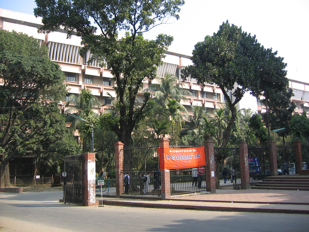 BUET gate. BUET is the top university in Bangladesh, and many of the best students of the country study here. I am an alumnus of BUET, and also taught there as a lecturer.